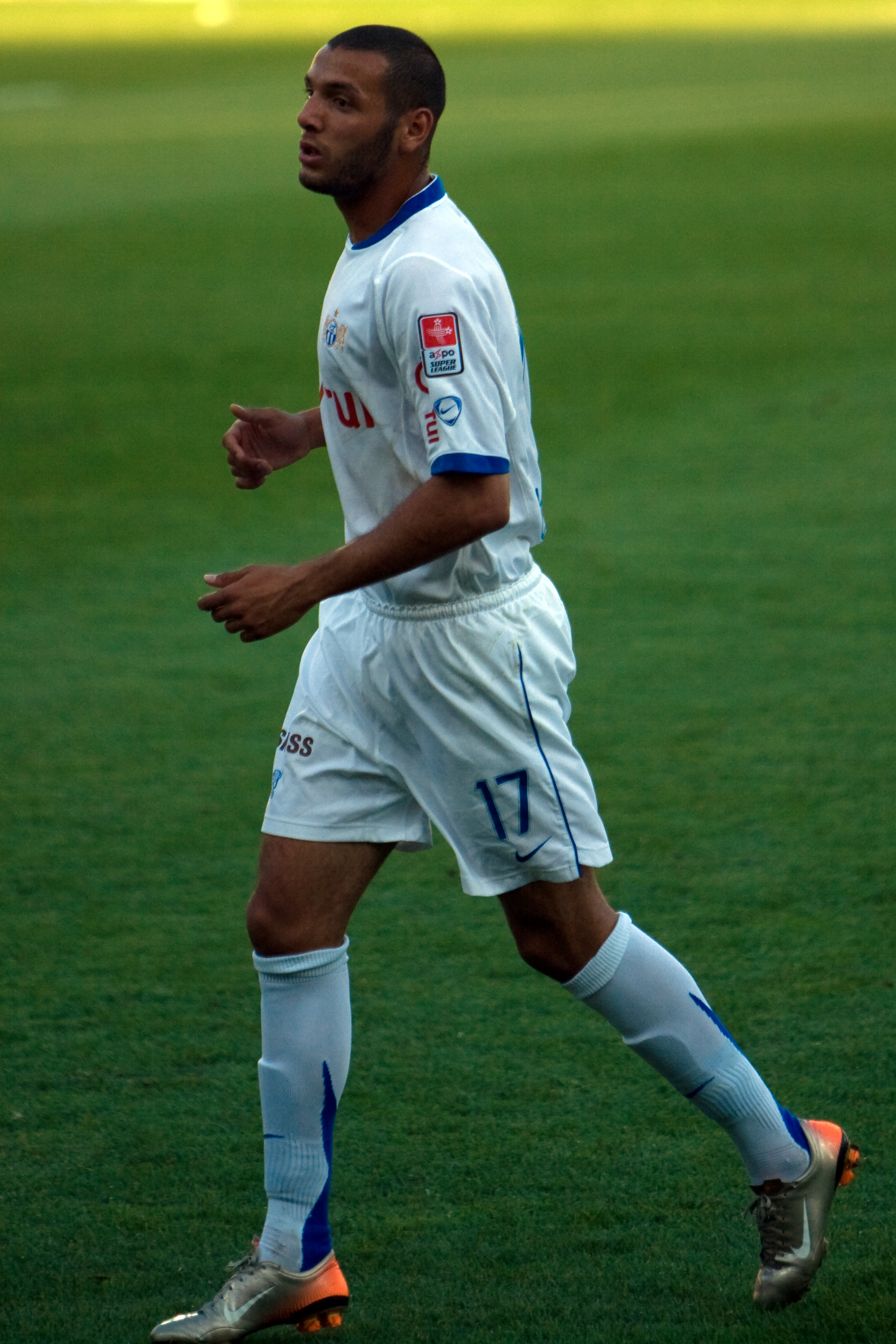 Yassine Chikhaoui, soccer player FC Zurich